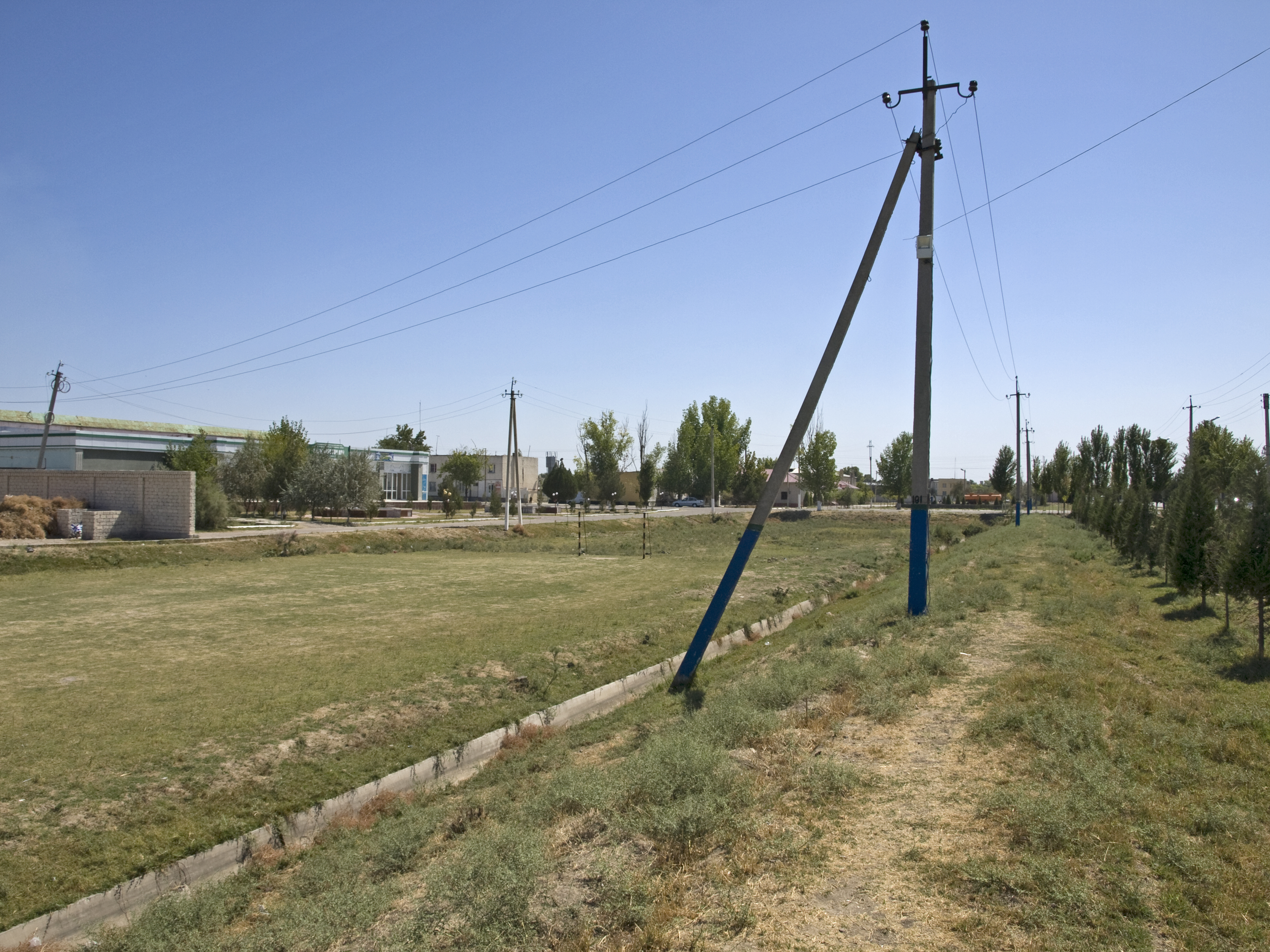 Fields in the northern part of Sirdaryo, Uzbekistan